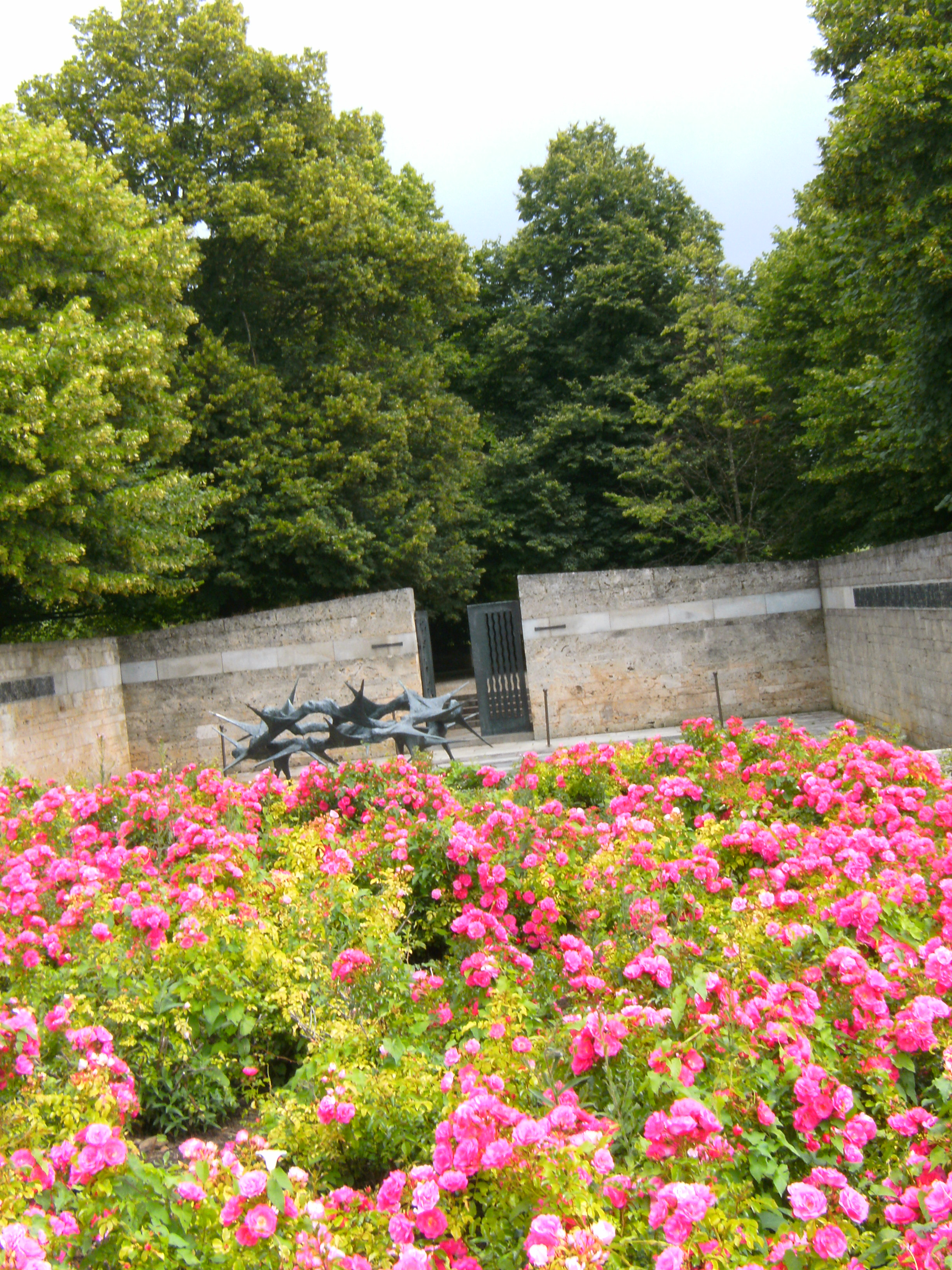 View into the inner yard of German war cemetery at Meersburg-Lerchenberg, Germany.